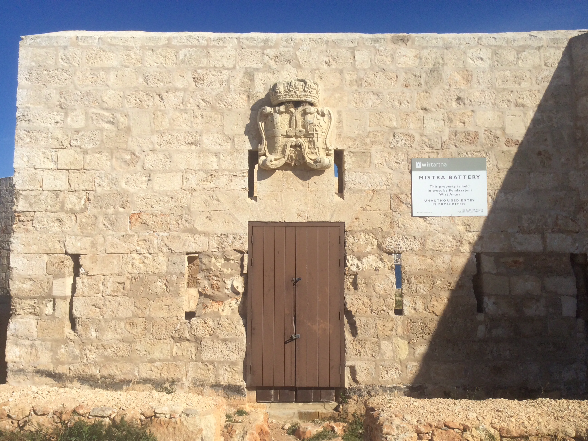 Main entrance of Mistra Battery, Mellieħa, Malta